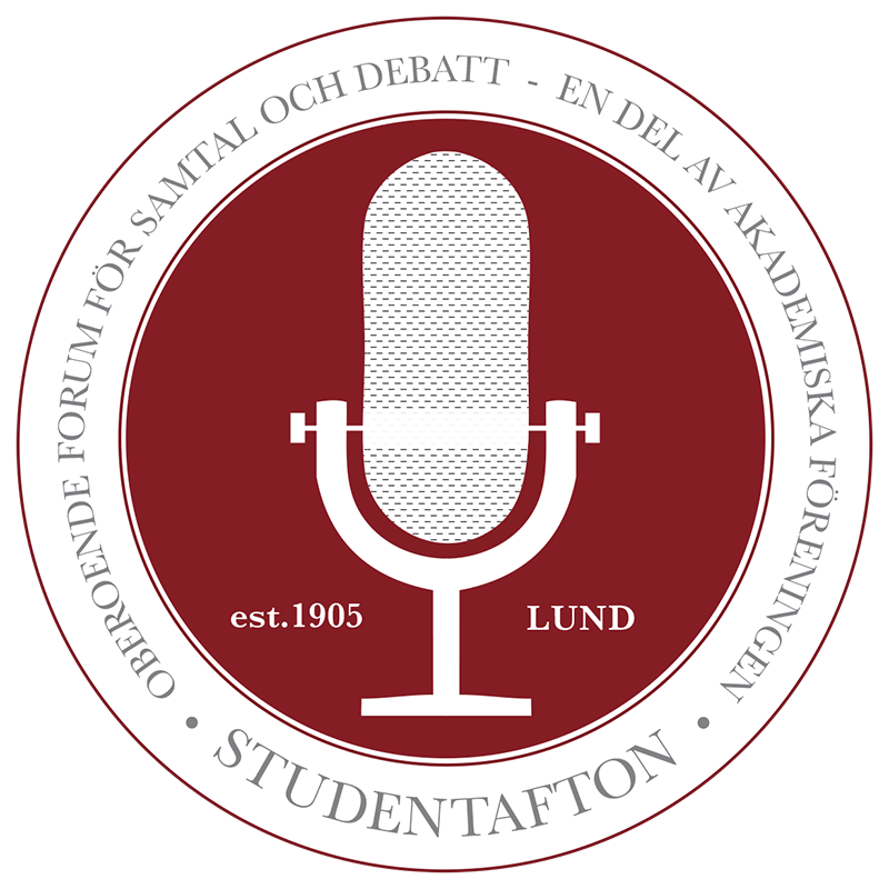 Studentafton Logotype